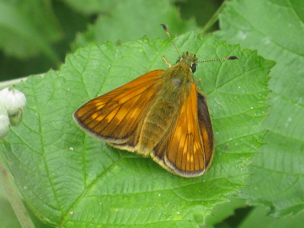 Large Skipper (Ochlodes sylvanus)